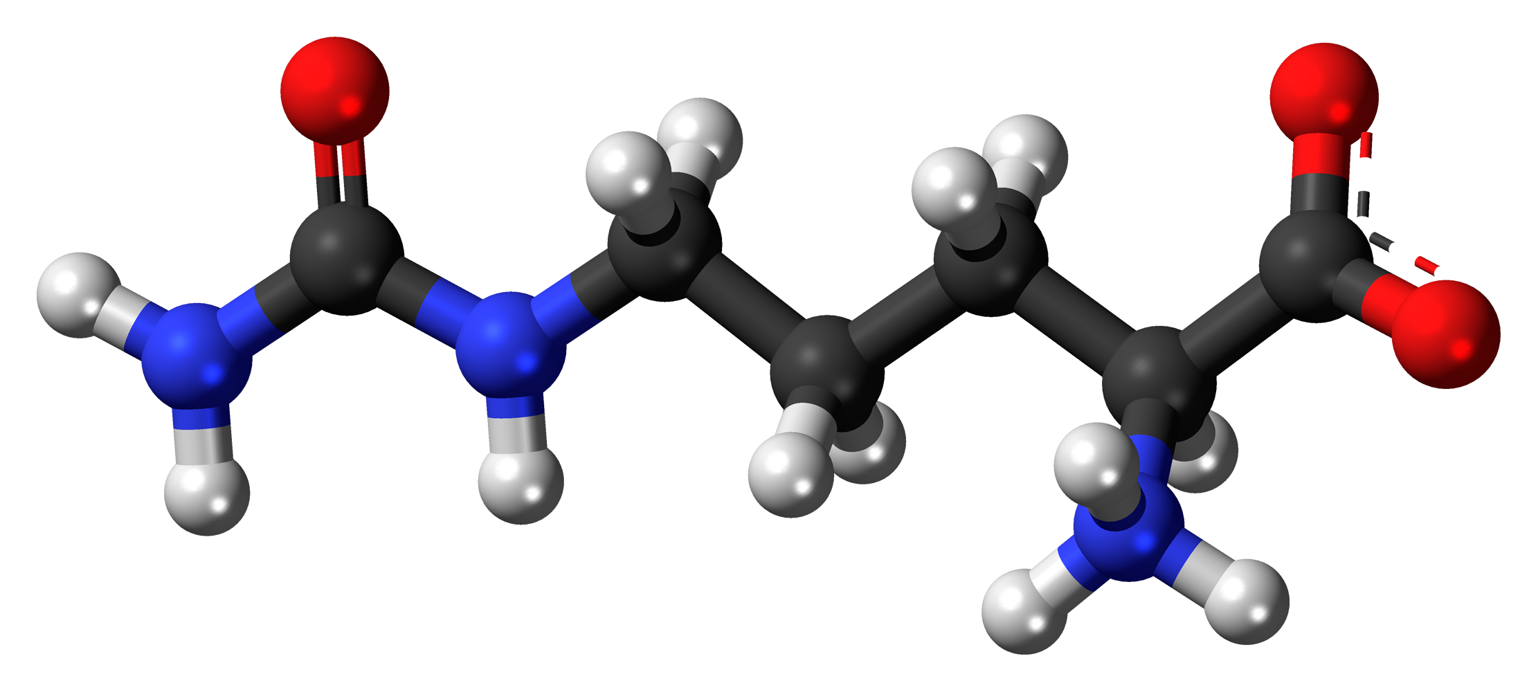 Ball-and-stick model of the citrulline molecule, a non-standard amino acid that may be incorporated into some proteins. Shown here as the L-isomer, in zwitterionic form. Colour code: Carbon, C: black Hydrogen, H: white Oxygen, O: red Nitrogen, N: blue